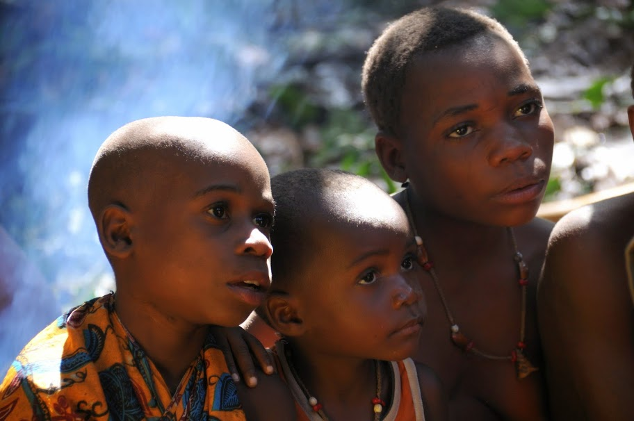 Young kids from bayaka tribe on Central African Republic rainforest Dzanga Sangha Ndoki